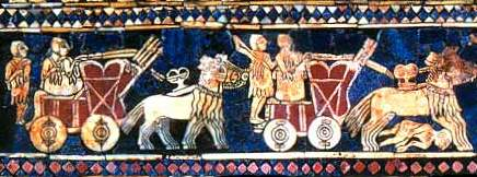 Sumerian chariots. Fragment of the Standard of Ur